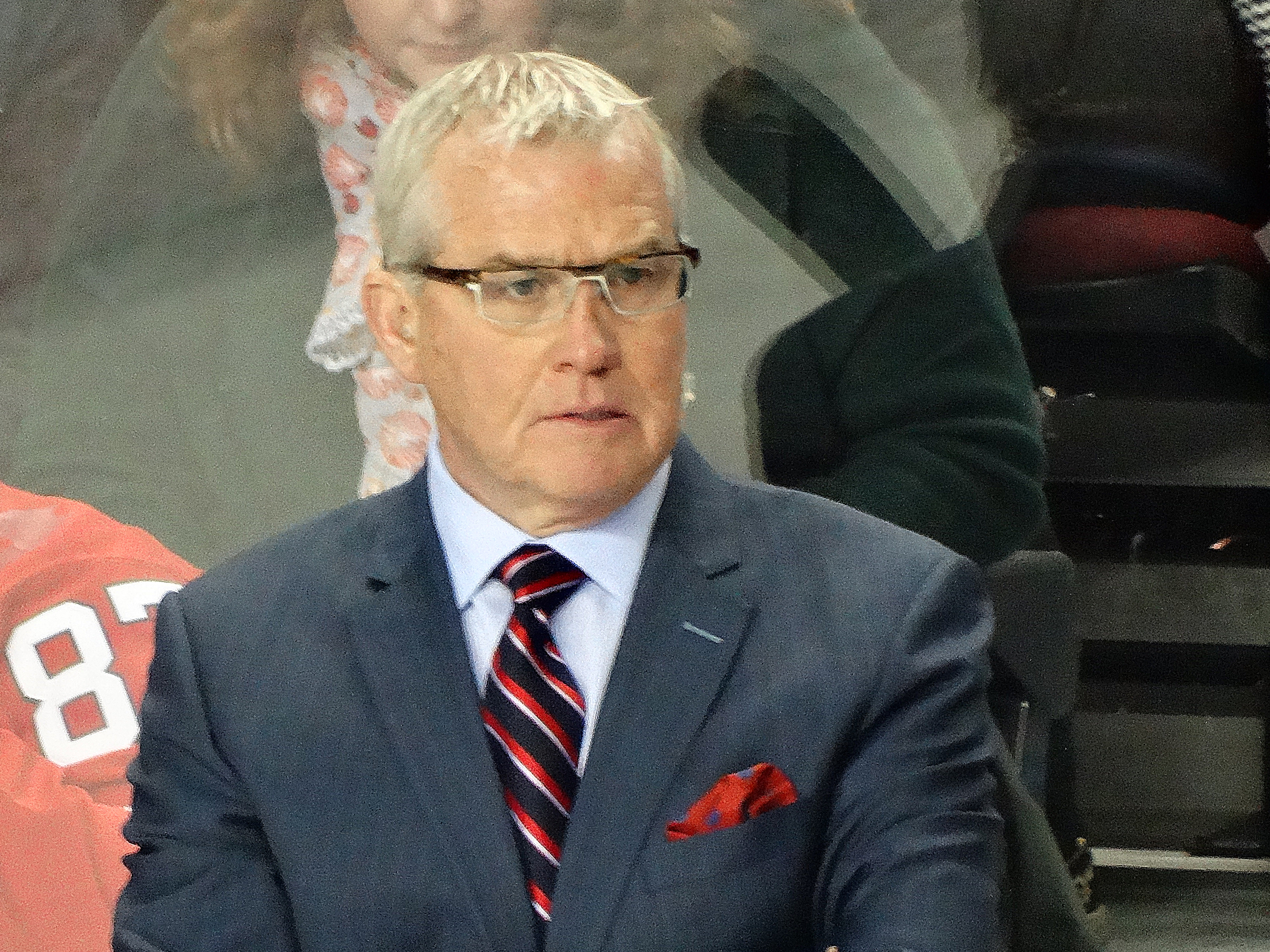 Sportsnet’s Nick Kypreos and Doug MacLean provided coverage from the benches of the two teams. Doug MacLean is a NHL head coach and general manager. The CHL / NHL Top Prospects game at Scotiabank Saddledome on January 15, 2014 in Calgary, Alberta, Canada. Team Orr defeated Team Cherry 4-3.